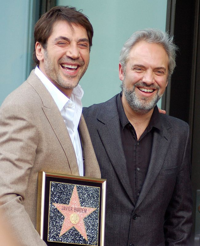 Javier Bardem and Sam Mendes at a ceremony for Bardem to receive a star on the Hollywood Walk of Fame.